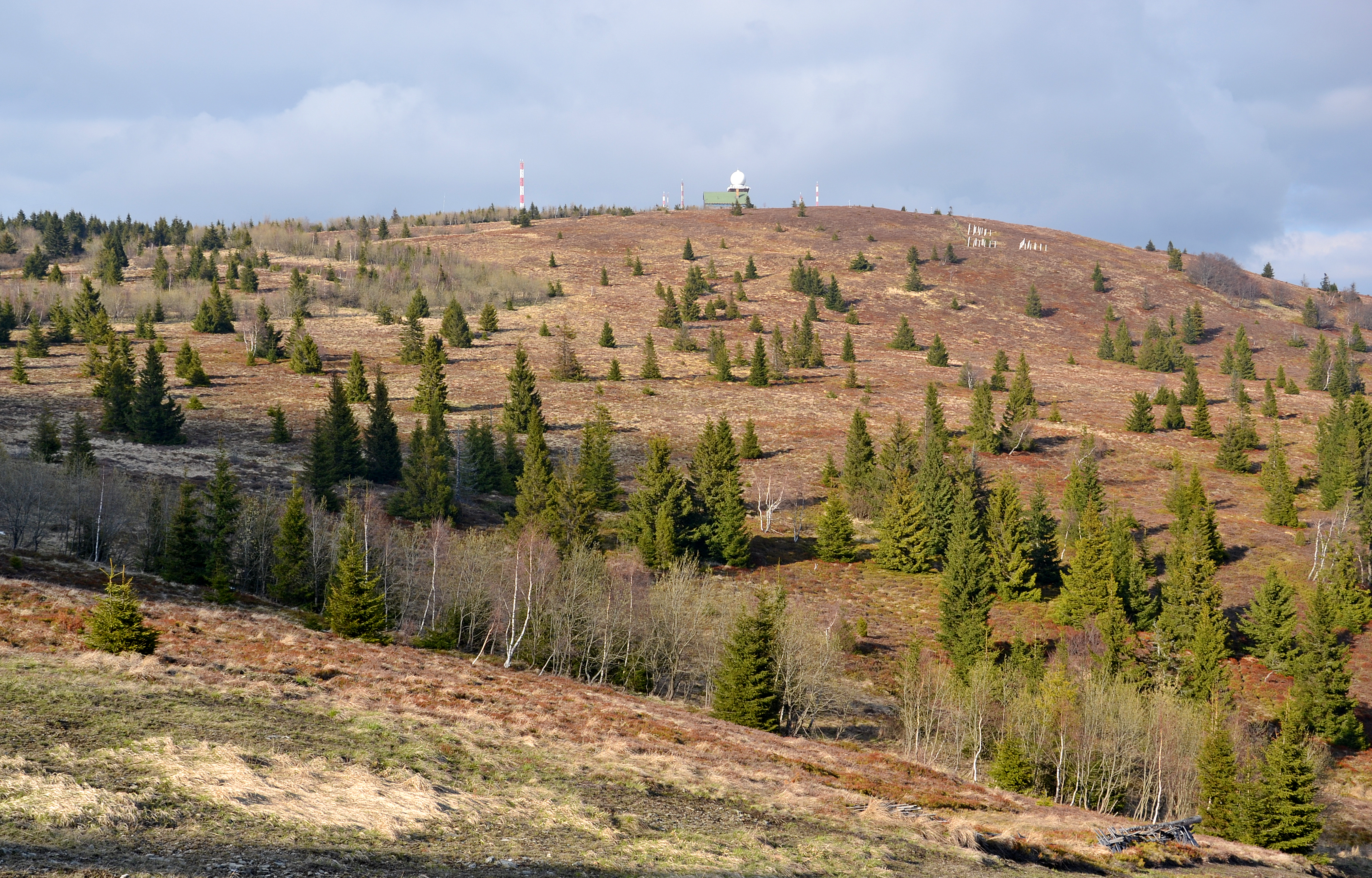 Kojšovská hoľa peak, Slovakia